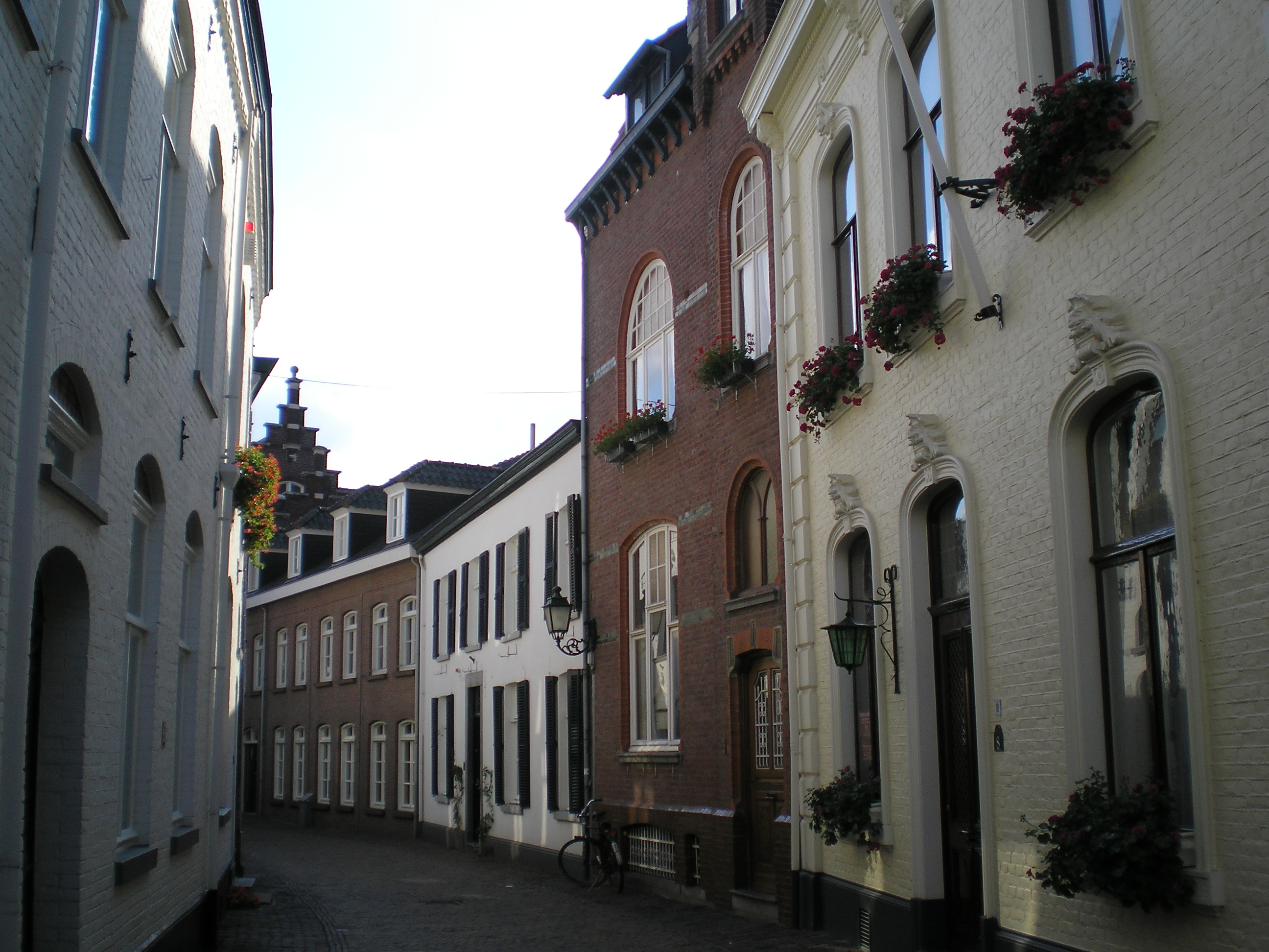 Begijnenhofstraat in Sittard in the Netherlands